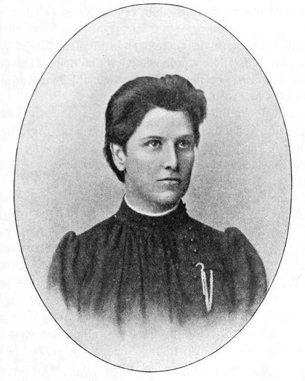 Yekaterina Kastalskaya